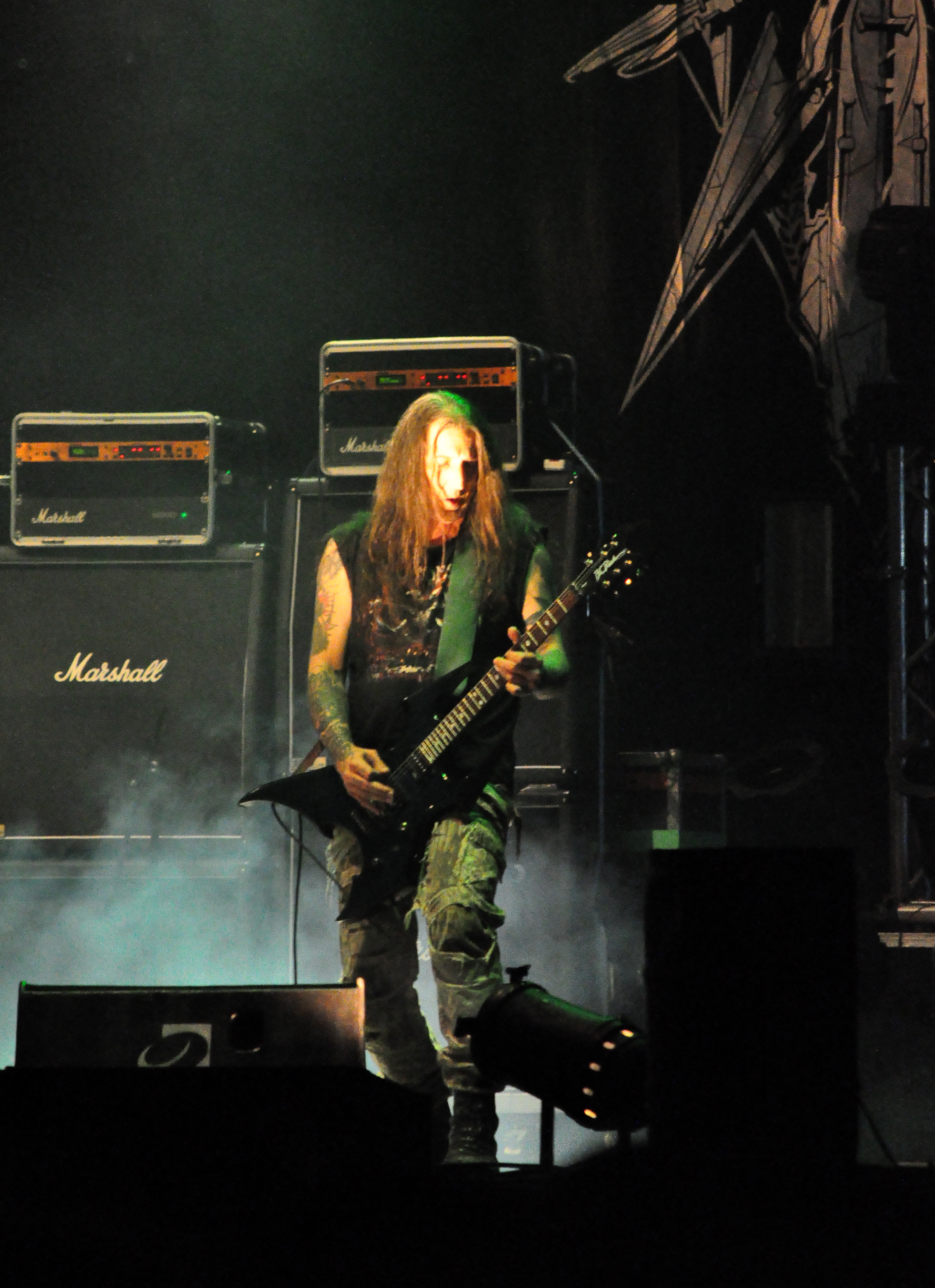 Bolt Thrower at Party.San Open Air 2012